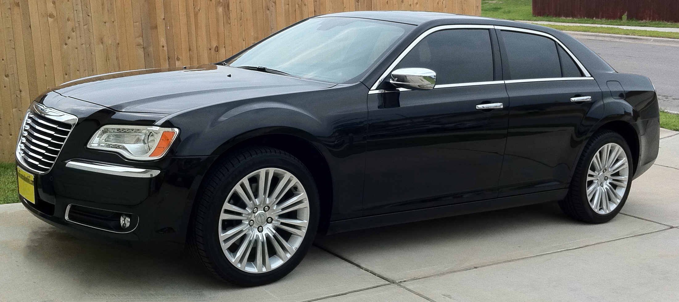 2011 Chrysler 300C